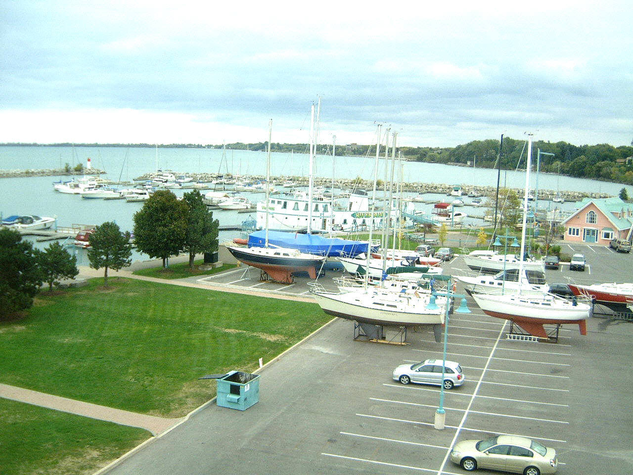 Marina and Lakeshore, as seen from Rear Range Lighthouse Port Dalhousie/St. Catharines, Ontario